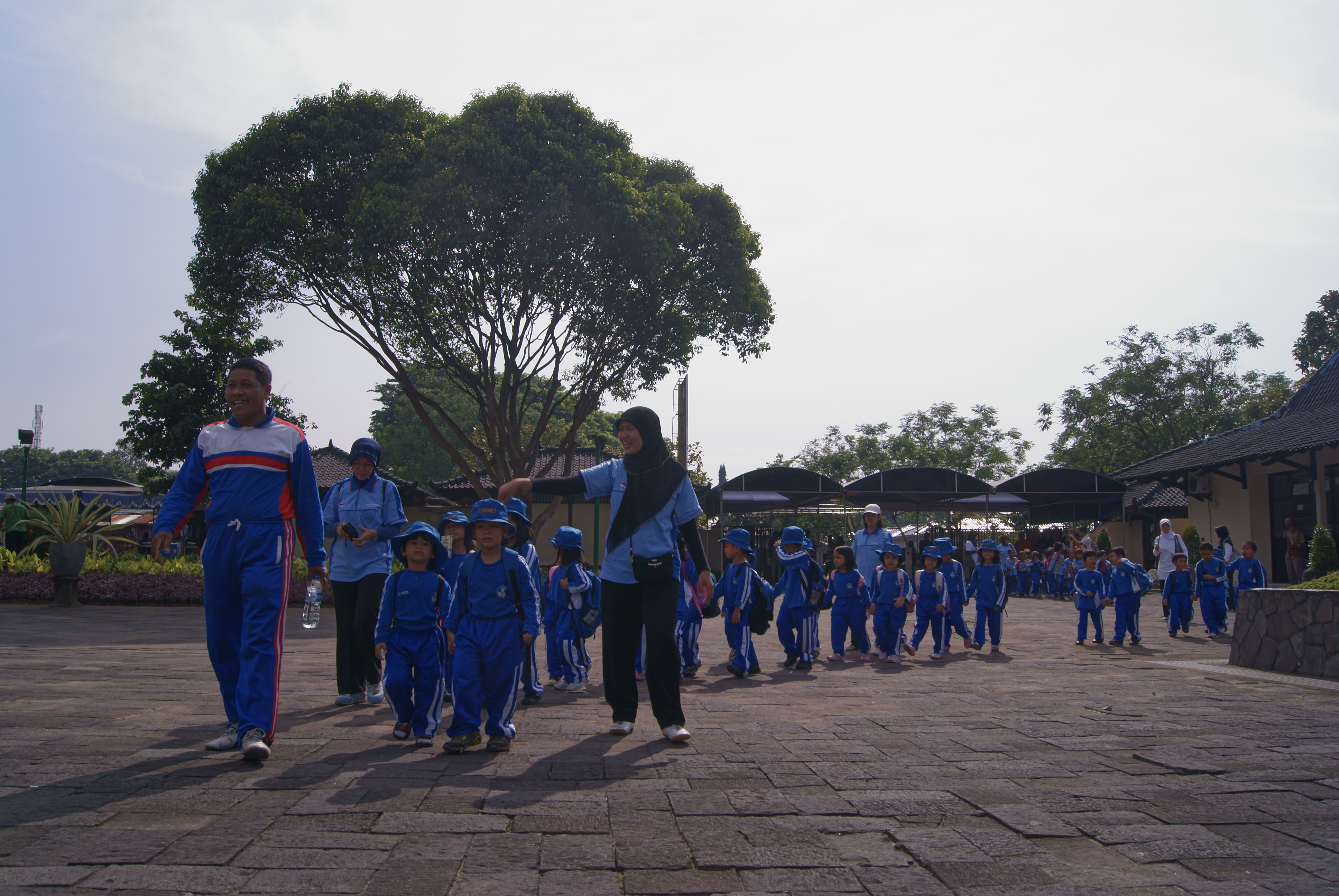 Kindergarten children marching, Prambanan Temple, Indonesia